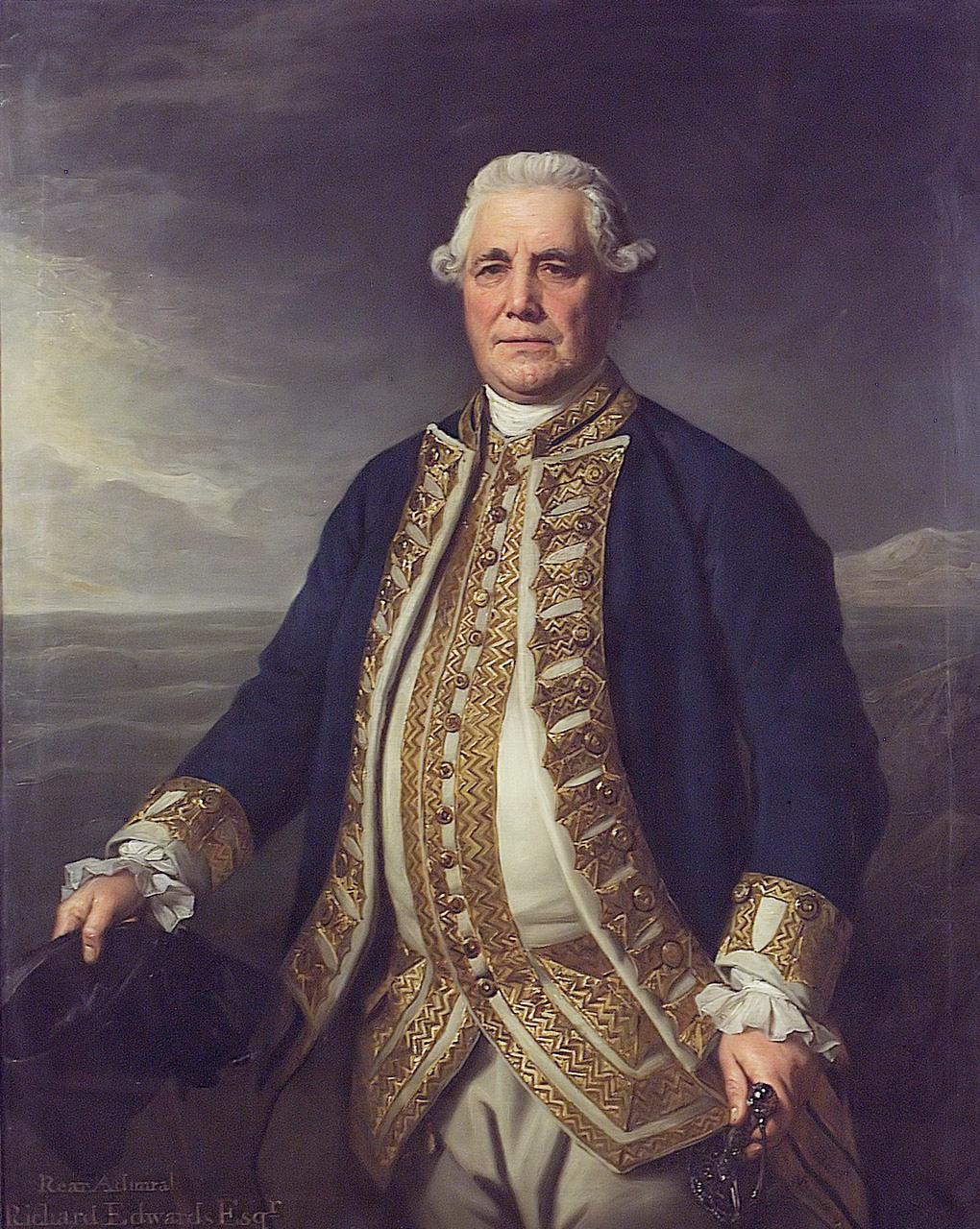 Caption from the museum's website A three-quarter-length portrait of Richard Edwards, Admiral of the Blue. He faces left and wears a flag officer's full-dress uniform 1767-83, with his hat and cane in his right hand. The background shows the coast of Newfoundland, where he fulfilled the seasonal appointment of Governor and Commander-in-Chief, 1778-81. He became Commander-in-Chief at the Nore in 1788. The painting is signed, dated and inscribed: 'N. Dance, pt, 1780 Rear-Admiral Richard Edwards, Esq.' The artist worked with Pompeo Batoni in Rome and on his return to London in 1765 achieved success as a portrait and history painter. In 1768, he joined a group of artists who successfully petitioned George III to establish the Royal Academy in that year. The painting has been signed by the artist and dated 1780.